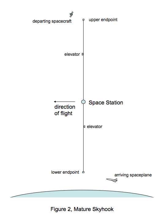 Figure 2, Mature non-rotating Skyhook